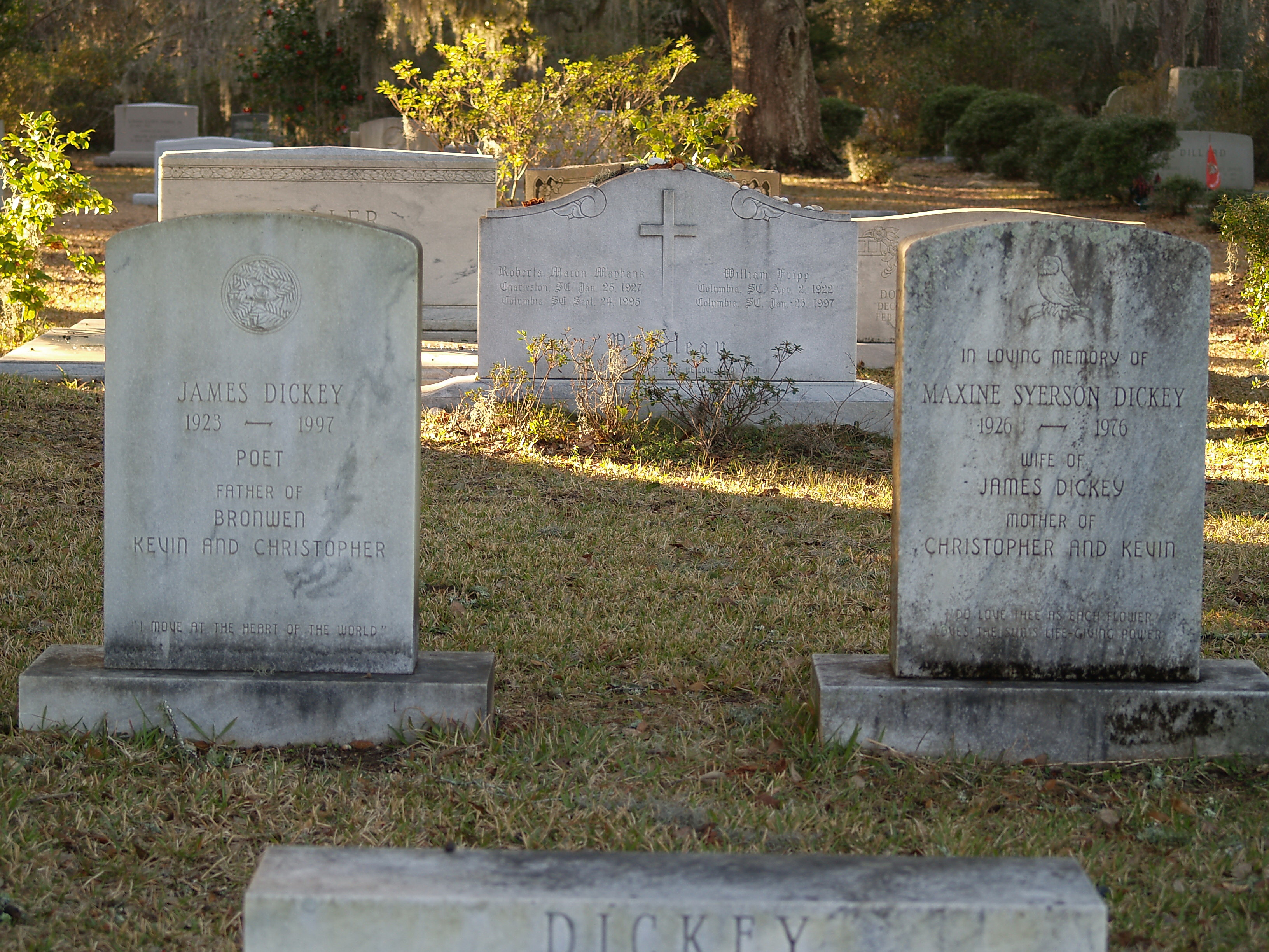 James Dickey gravesite in Pawleys Island, South Carolina. James Lafayette Dickey (2 February 1923 – 19 January 1997) was an American poet and novelist